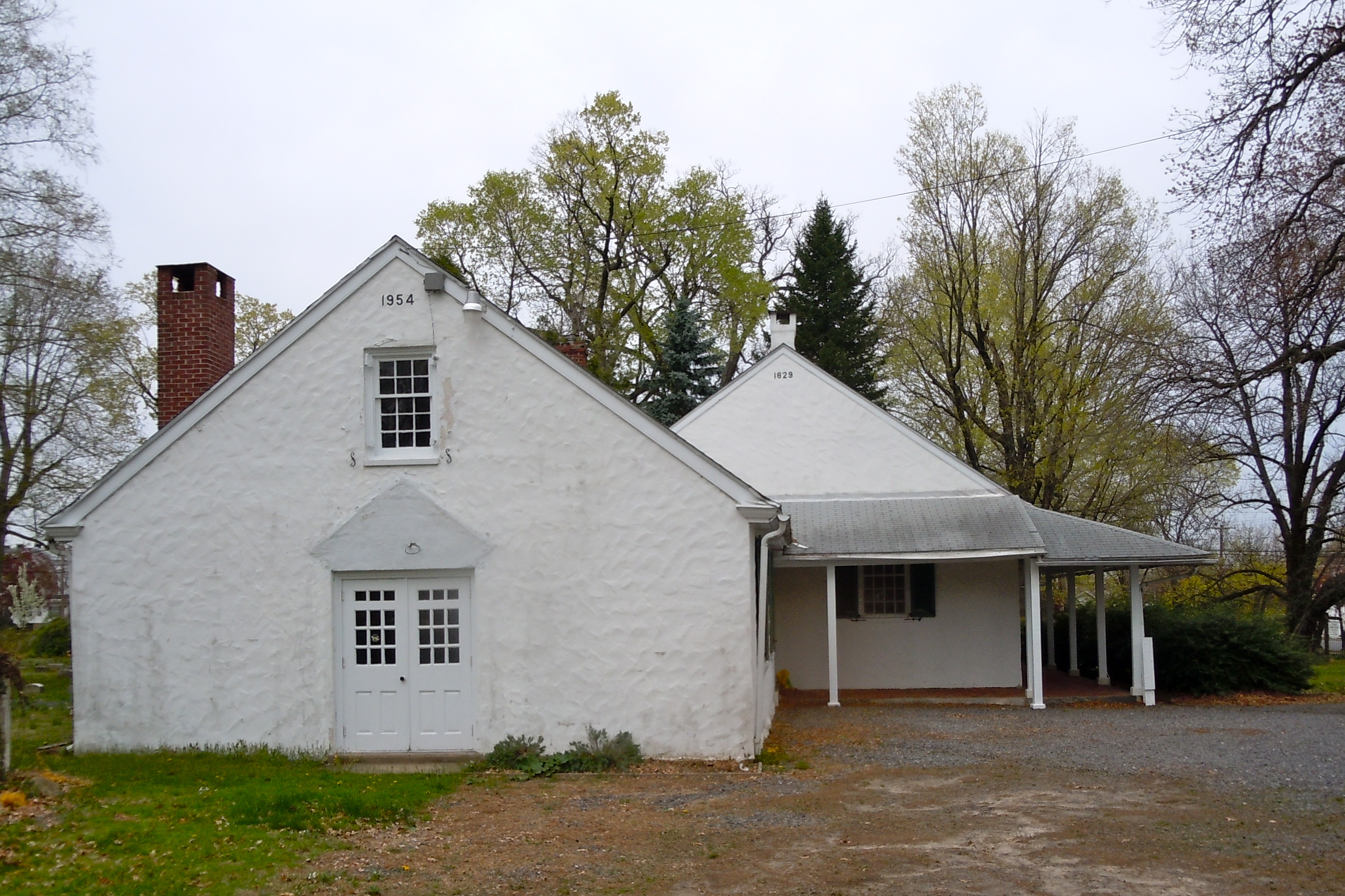 First Friends Meeting in Pennsylvania, dating back to 1675 (before Pennsylvania). When William Penn landed in Chester, PA he then went to the house at this site (which was the meetinghouse). These structures build 1954 (front) and 1829. PHMC historical market dedicated on Wednesday, October 22, 1997. Located at 24th & Chestnut Sts., Chester, Delaware County, Pennsylvania. 39.8695°N 75.3632°W City Historical topics: Religion, William Penn.